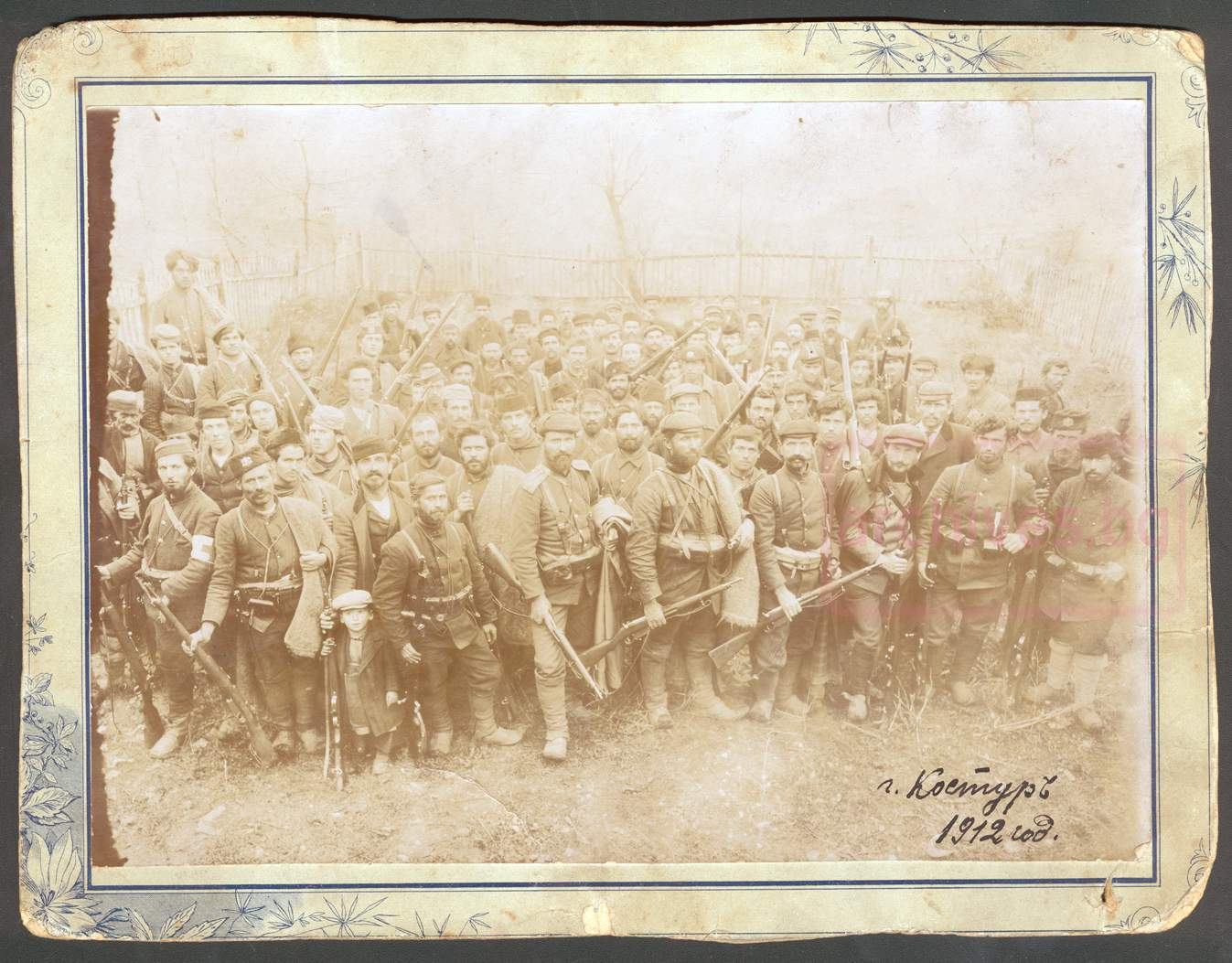 Liberation of Kostur city, 1912